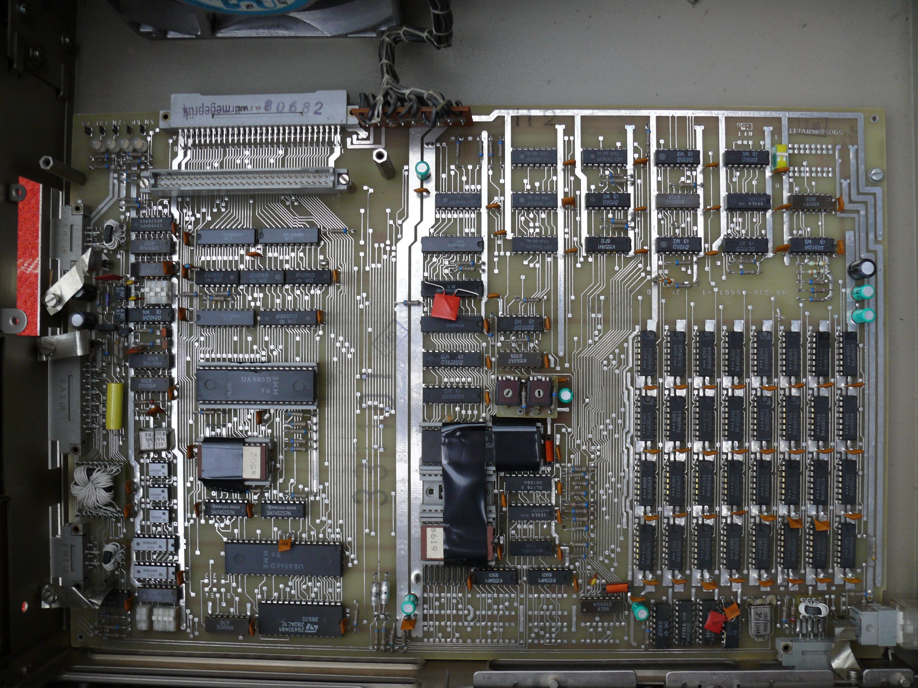 Mainboard of a robotron 1715 (PC 1715)